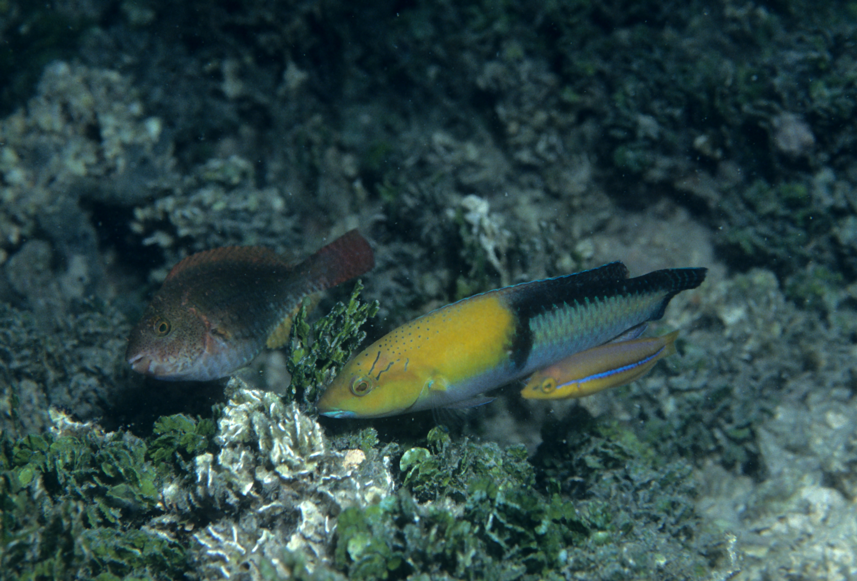 Yellowhead wrasse (Halichoeres garnoti) in center. Caribbean Sea.